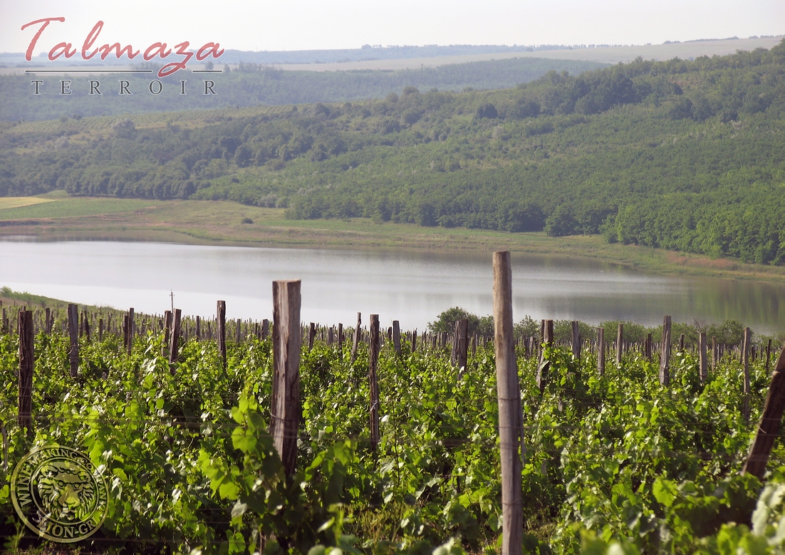 Vineyards Talmaza terroir